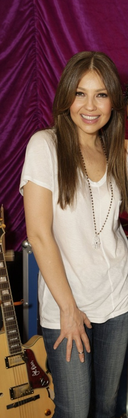 Thalía Primera Fila